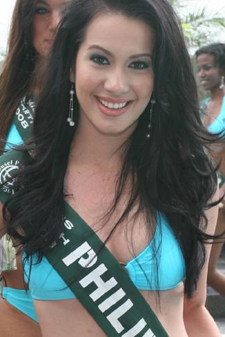 Karla Henry - Miss Philippines Earth 2008 during the Press Conference of Miss Earth 2008 in Traders Manila Hotel, Manila, Philippines.